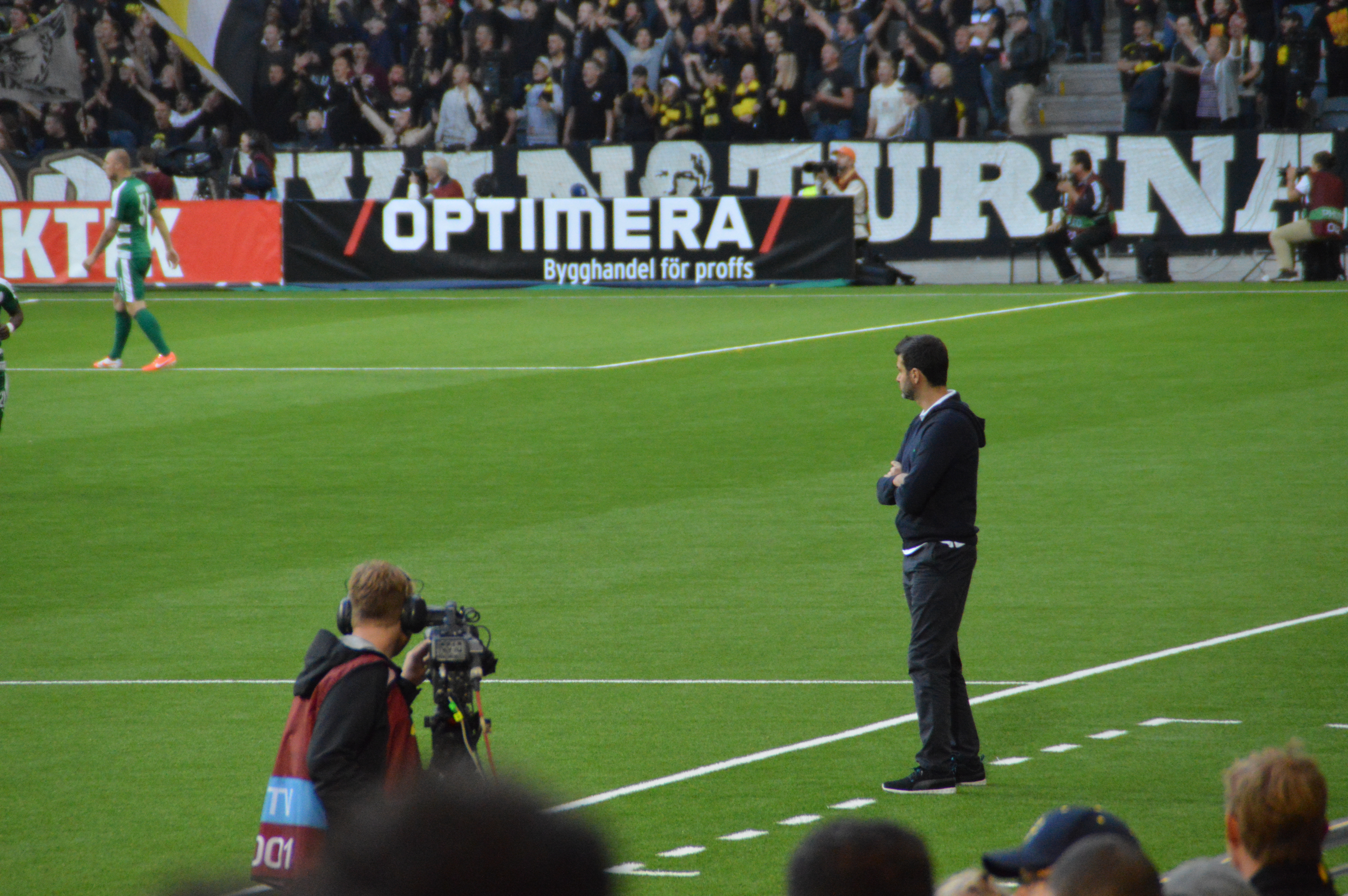 Panathinaikos manager Andrea Stramacioni during a UEFA Europa League Qualifier against AIK at Tele2 Arena, Stockholm, Sweden